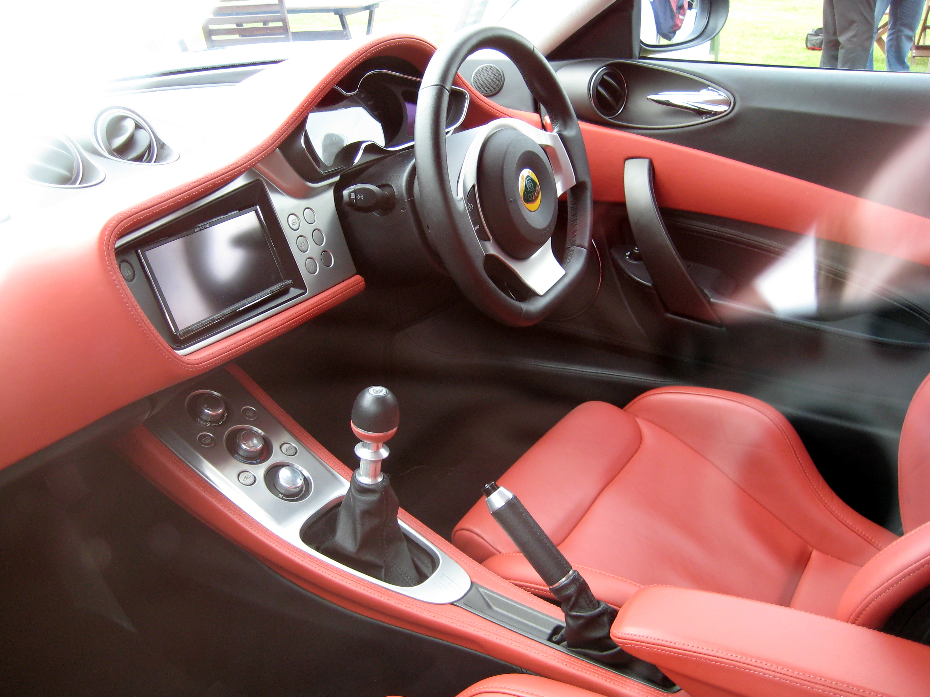 Red interior of a Lotus Evora with right hand drive.